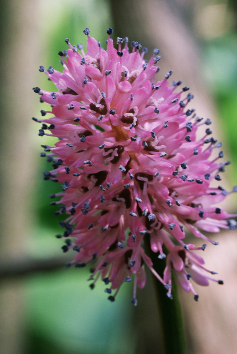 Close up shot of swamp pink (Helonias bullata)